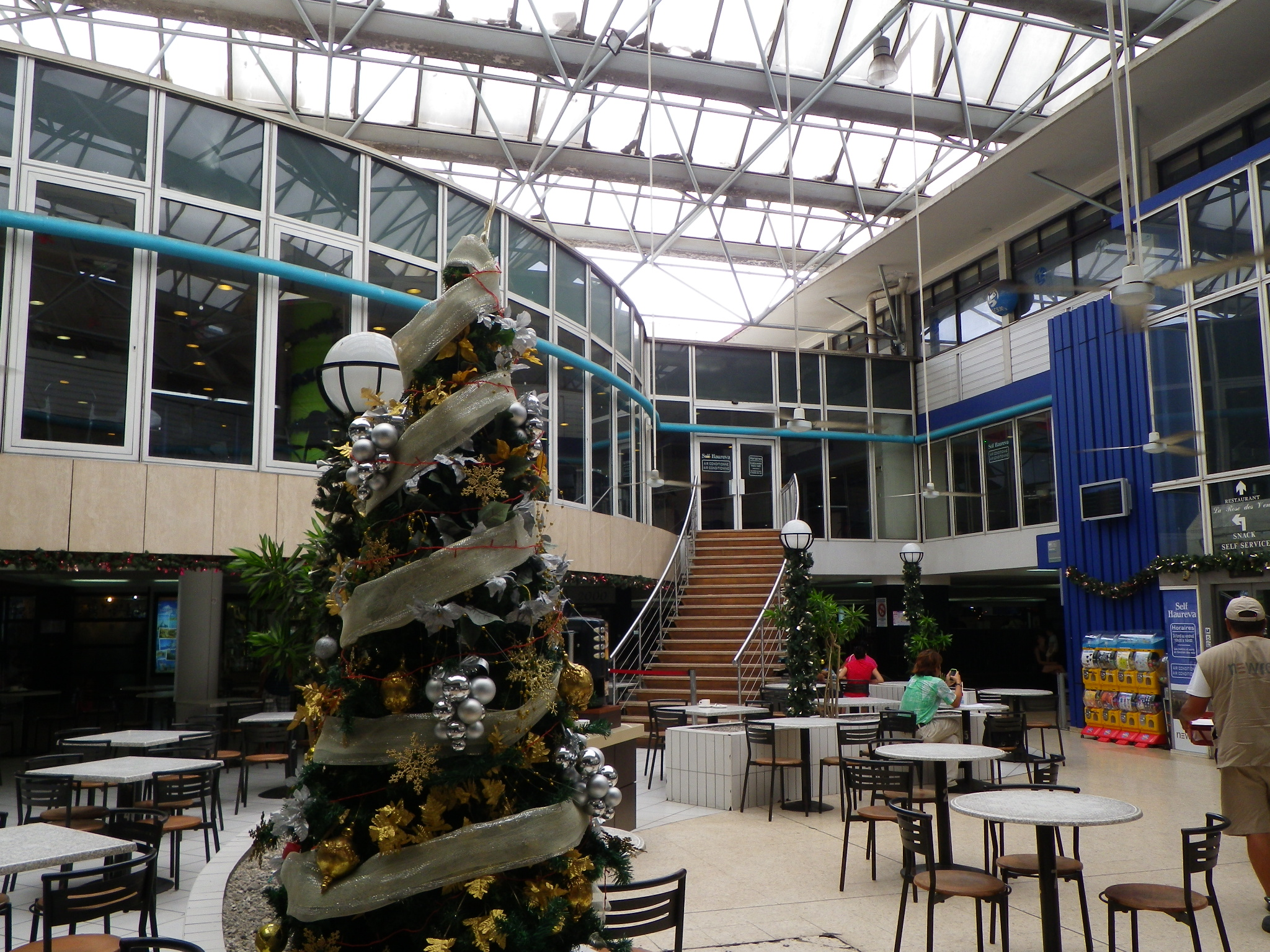 Faaa International Airport